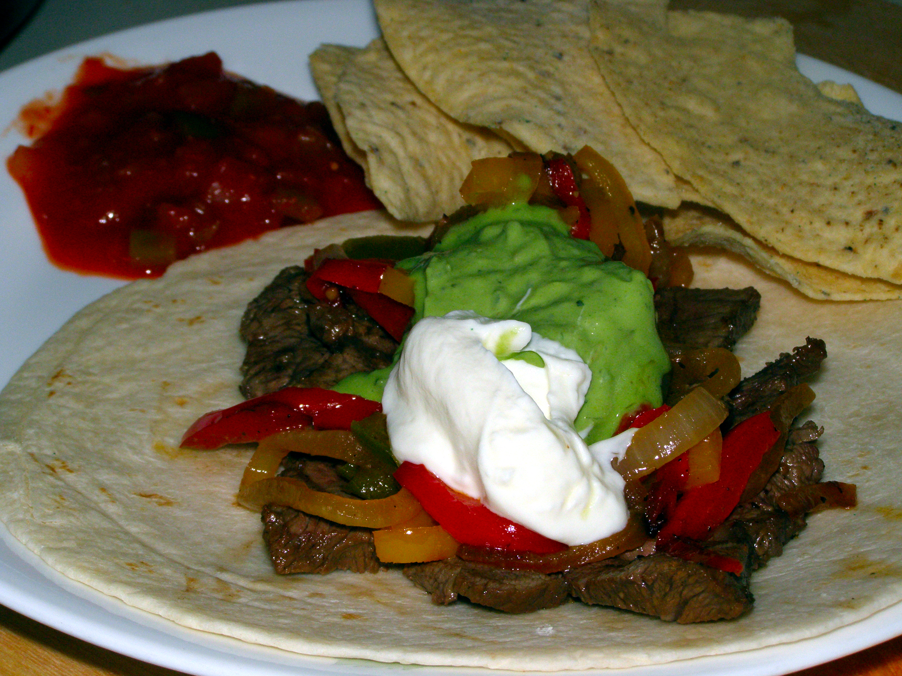 Fajita with sauteed onion, red pepper, yellow pepper, green pepper, guacamole and sour cream.